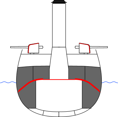 Schematic section of a Protected Cruiser. The red lines are the armoured deck and gun shields, grey areas are coal bunkers and the blue line is the water line. Based on a drawing from War-Ships, A Text-Book on The Construction, Protection, Stability, Turning etc. of War Vessels by Edward L Attwood, M.Inst.N.A., Longmans Green, London, 1910. Drawn by me, Emoscopes 13:20, 5 September 2006 (UTC), using XaraXtreme software.